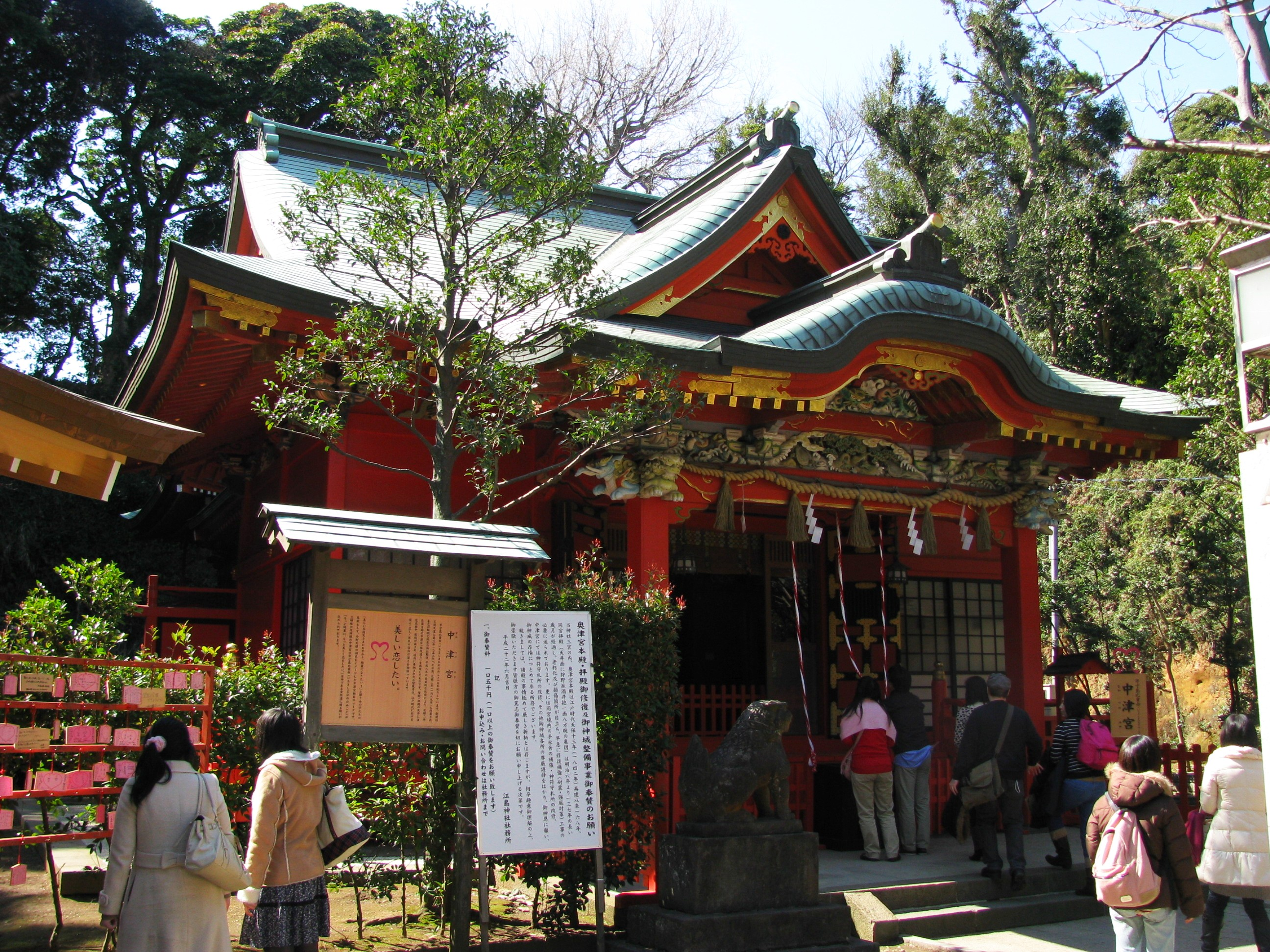 The Nakatsu-miya of Enoshima Shrine. This place is Enoshima in Fujisawa, Kanagawa Prefecture, Japan.